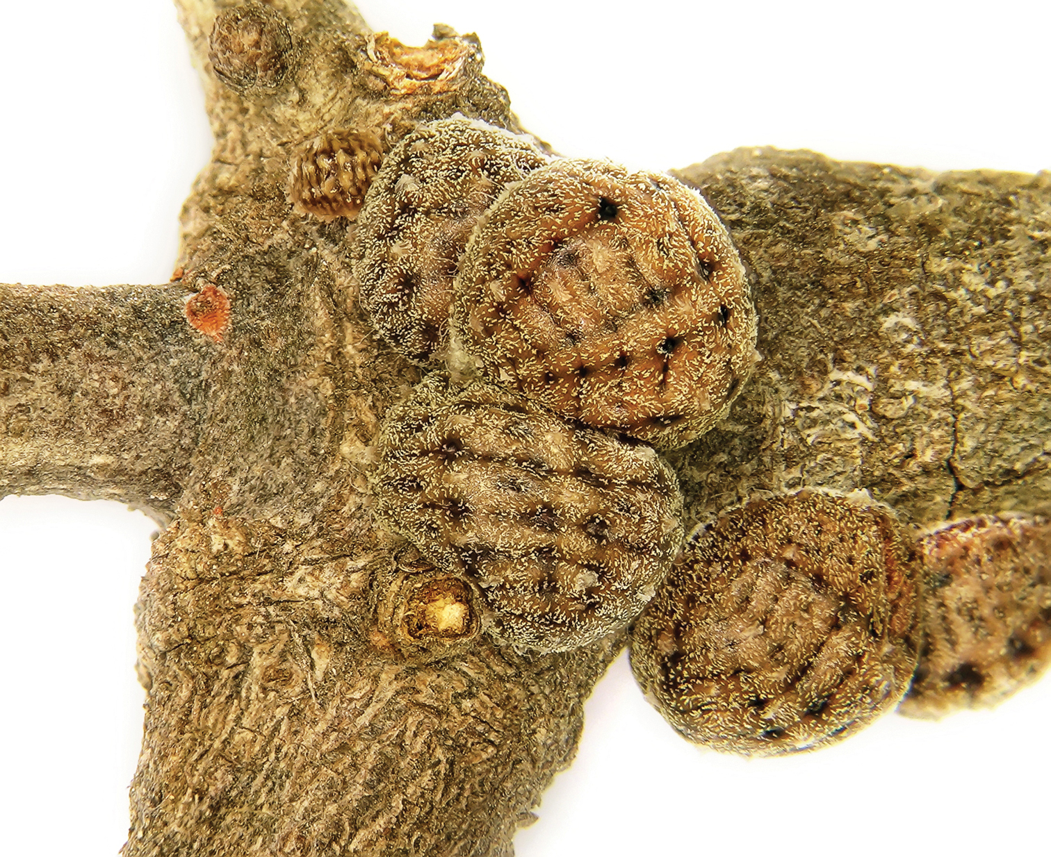 Kermes echinatus Balachowsky mature reproductive females, general appearance.